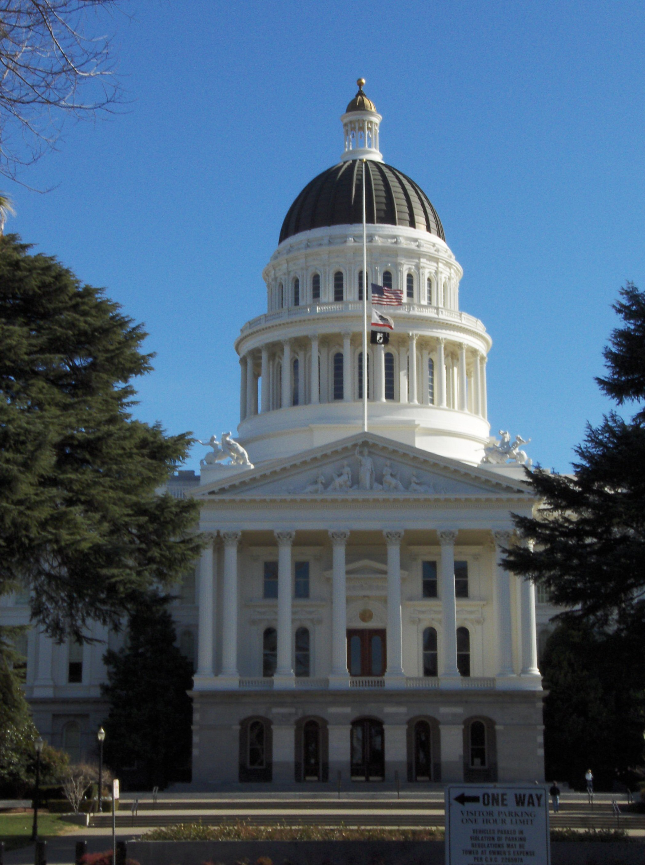 California State Capitol; main entrance on west side of building; one of few state capitols to fly POW flag; flags flying at half mast on behalf of the death of President Gerald Ford